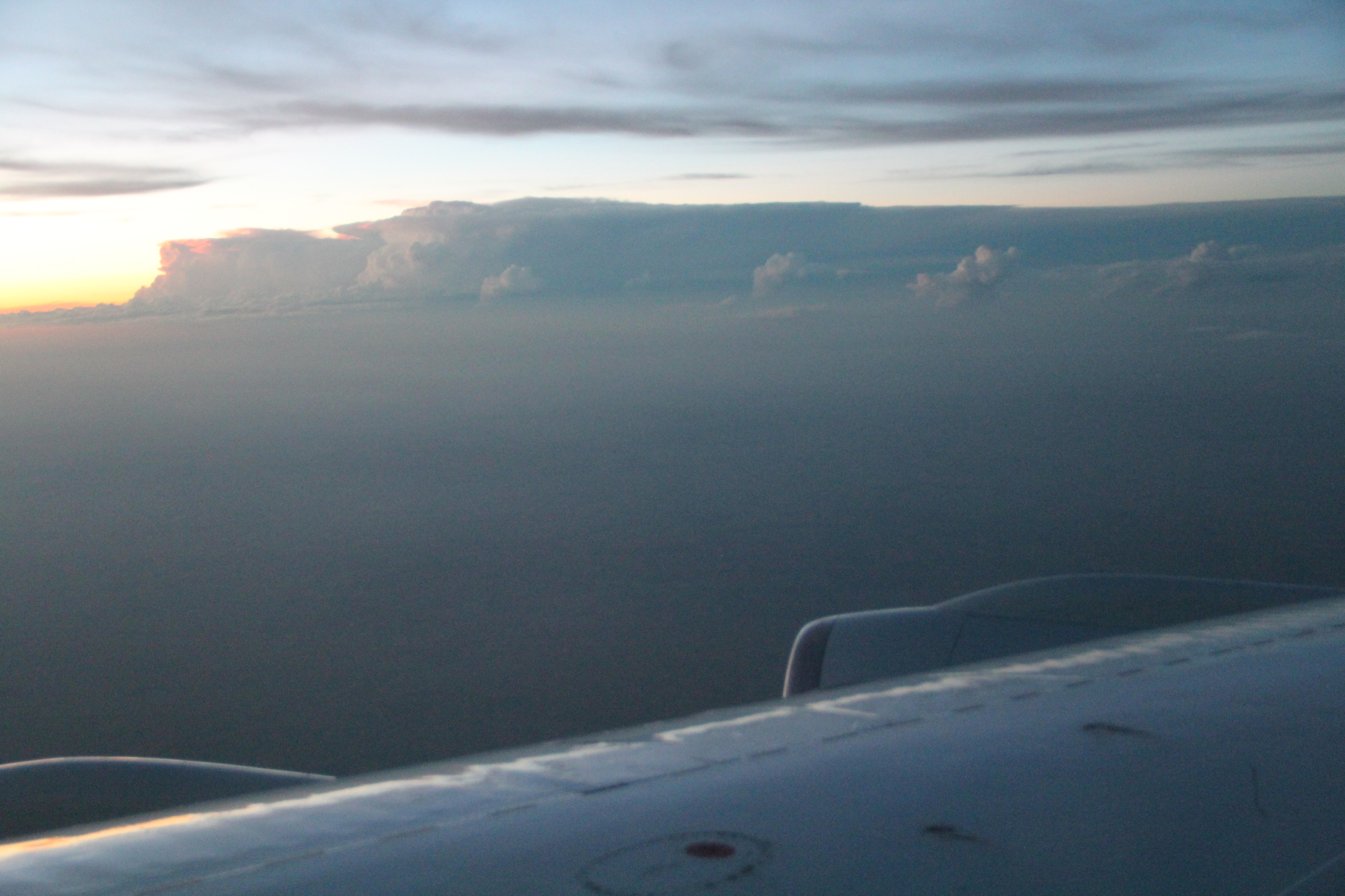 MCS in northern Kansas